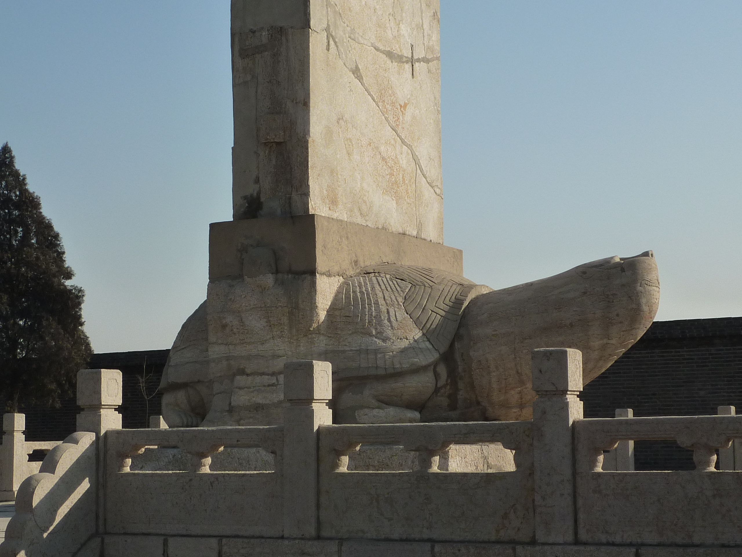 The Shou Qiu site - the two giant turtle-borne steles on the eastern and western side of a small lake. As almost all turtles of these kind, the two turtles look to the south. The western stele is known as "Qing Shou Stele", the eastern stele, as the "Wan Ren Chou Stele"